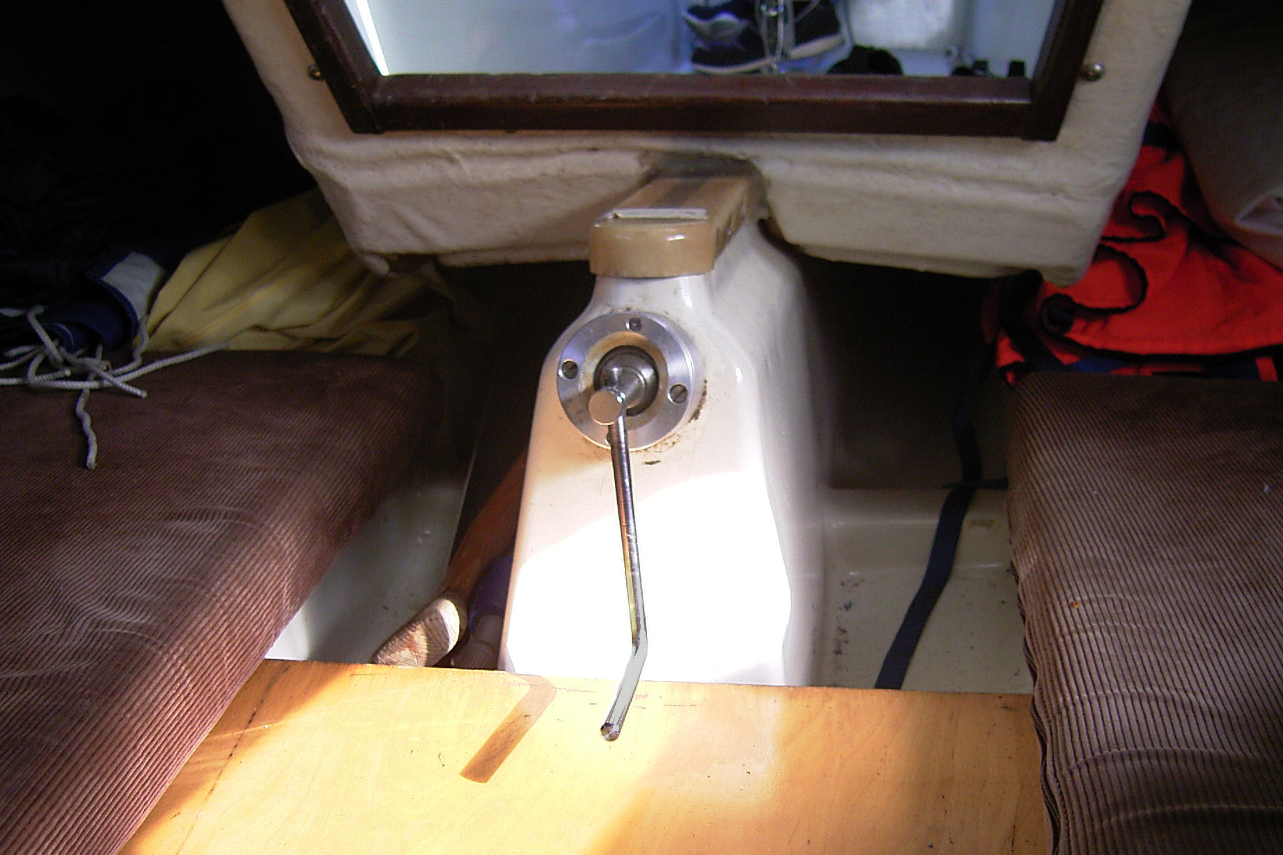 The Crank for adjusting the centreboard of a Fam (a small boat popular in Germany)